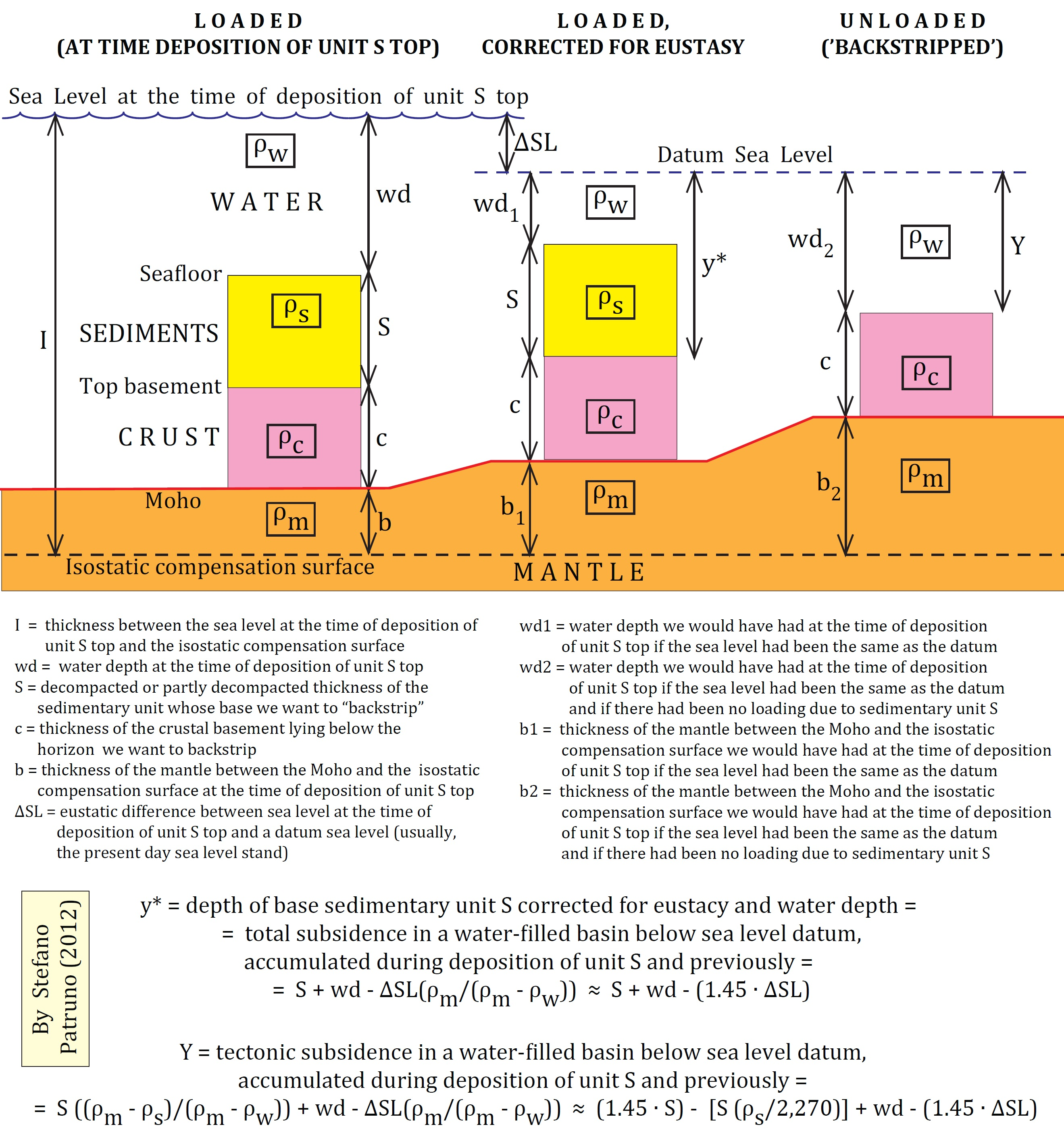 Procedure to correct the depth of a sedimentary unit for eustasy and water depth (which equals to calculate the total subsidence relative to a stationary datum) and subsequently to perform a "backstripping", e.g. to take out the effect of sediment loading from the total subsidence and to calculate the amount of tectonic subsidence (i.e. subsidence due to a tectonic driving force) relative to a stationary datum. This procedure is valid in a water-filled basin, where the sediments and the crust are in isostatic equilibrium with the underlying mantle (according to Airy isostasy model)